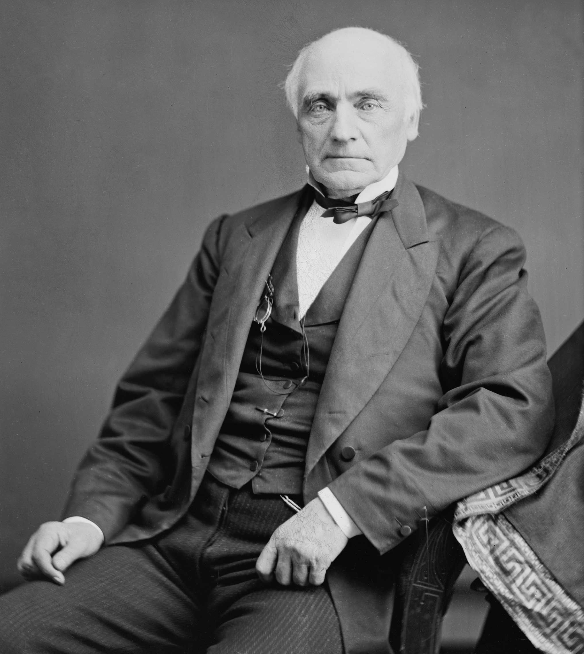 Lot M. Morrill, former Secretary of the Treasury of the United States.